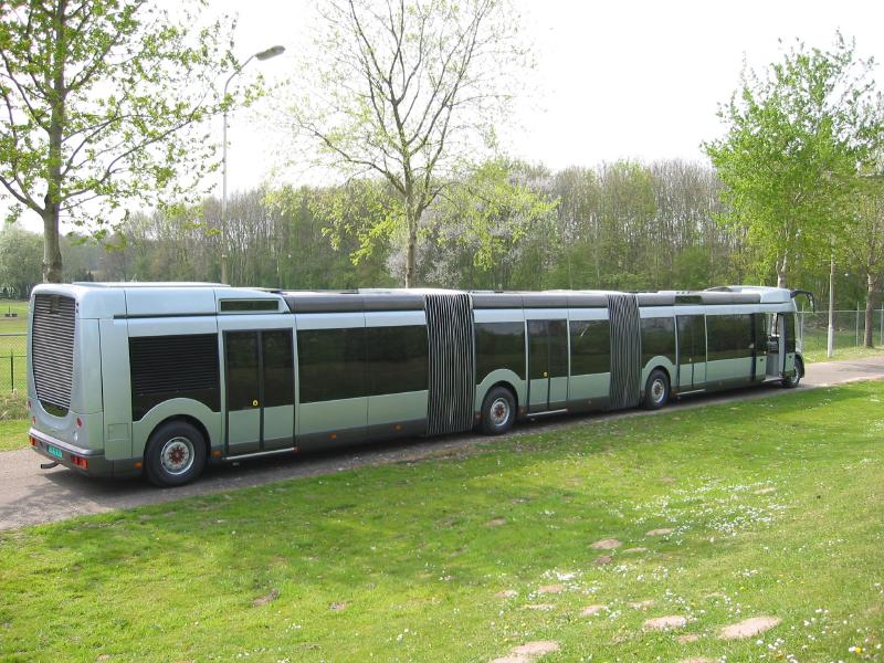 APTS Phileas 24 quad-axle bi-articulated bus in Eindhoven, Netherlands.